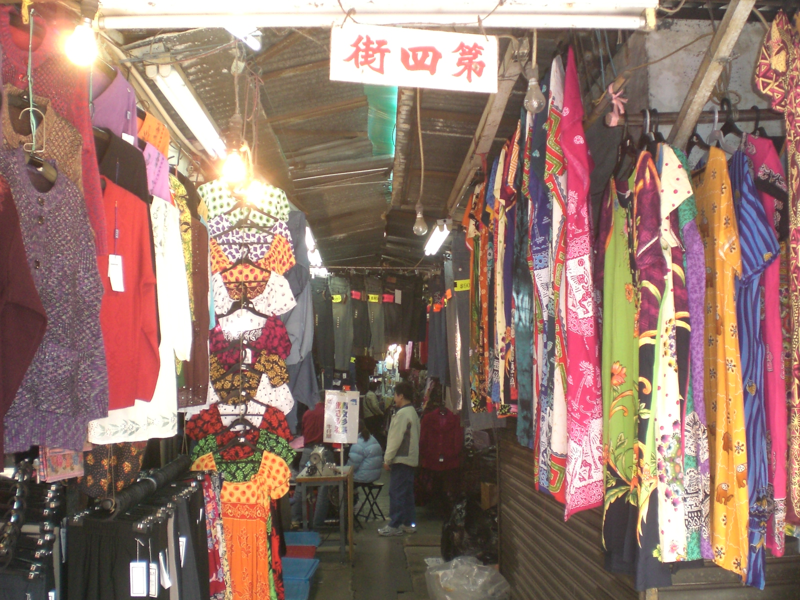 荃灣 鱟地坊